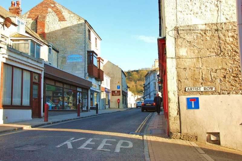 Fortuneswell: Artist Row